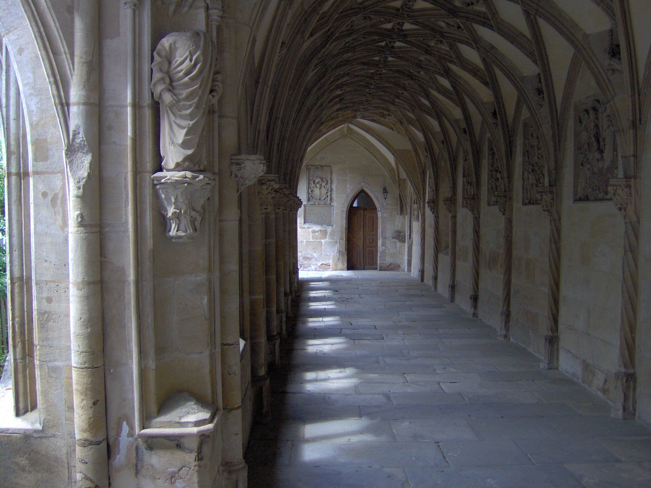 monastery himmelkron, germany. cloister.